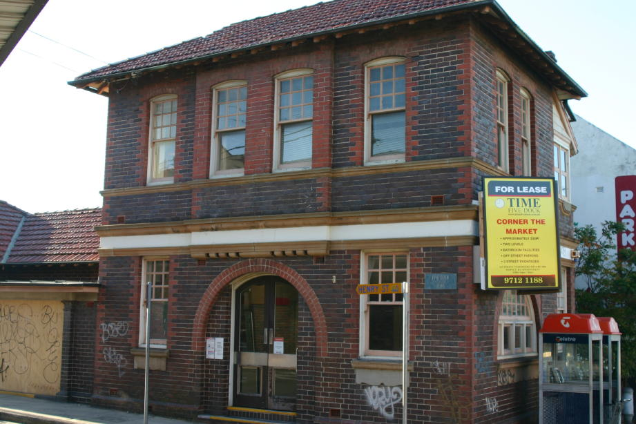 Old Post Office building, Corner of Great North Road and Henry Street, Five Dock, NSW, Australia. Photograph taken by Alex Wolfson, 18/09/2005